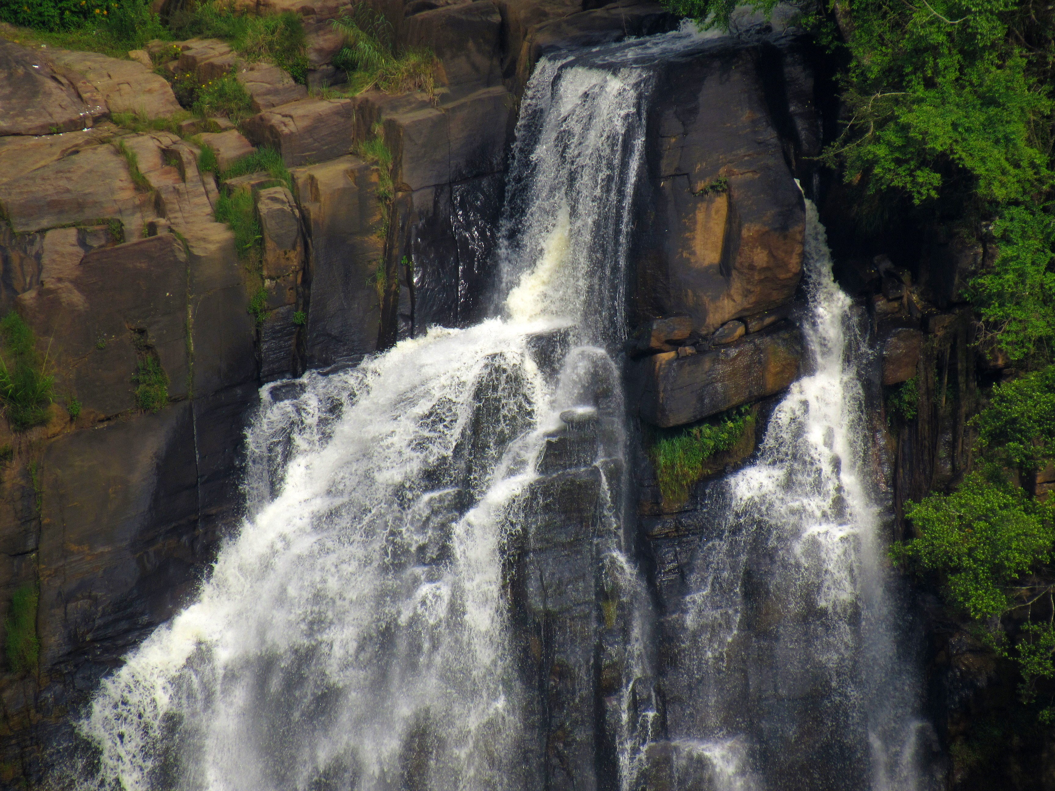 Devon Falls, Central Province, Sri Lanka.